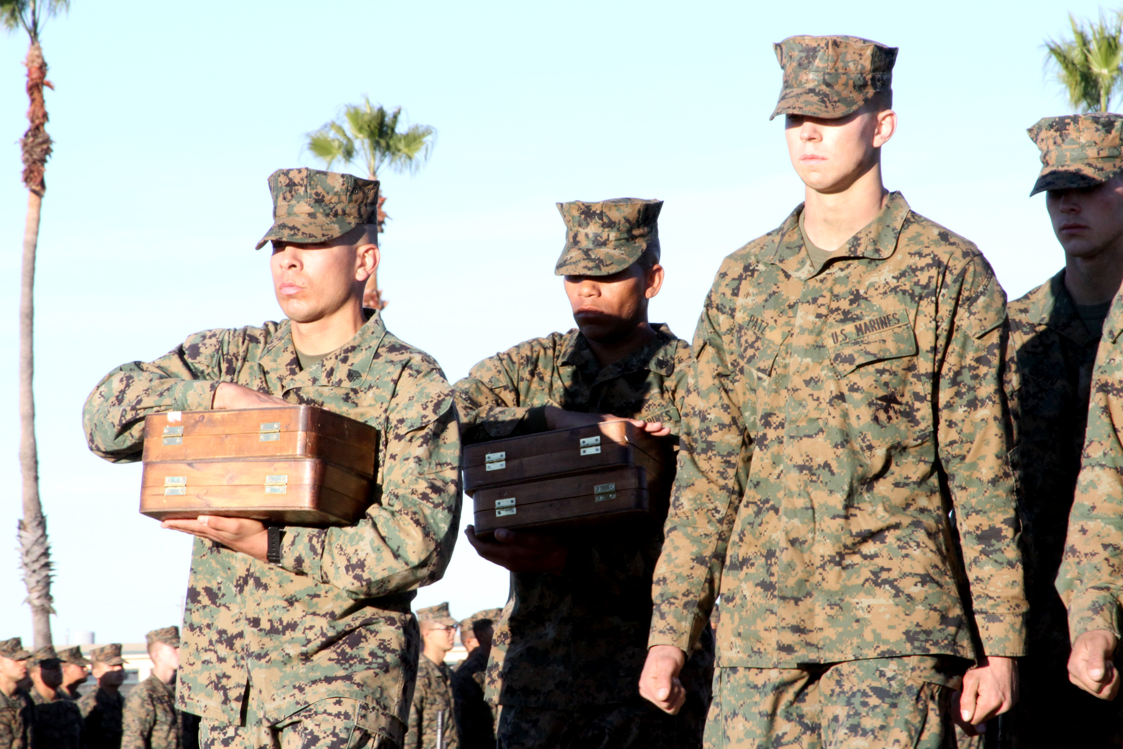 Drill instructors prepare to present eagle, globe, and anchor emblems to the nation’s newest Marines. The eagle, globe, and anchor ceremony is a formal presentation of the transition from recruit to Marine.